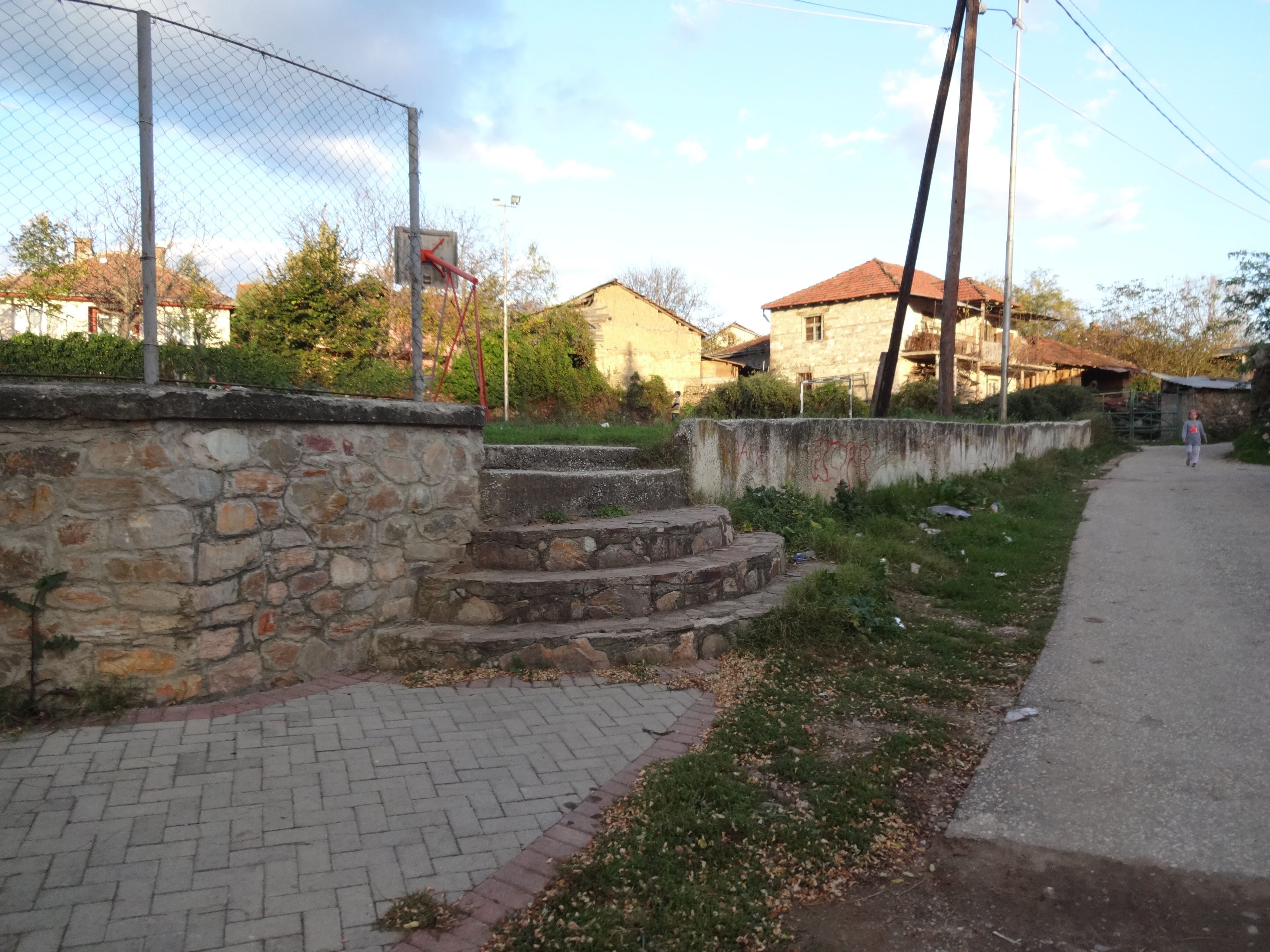 Village Brazda near Skopje, Macedonia